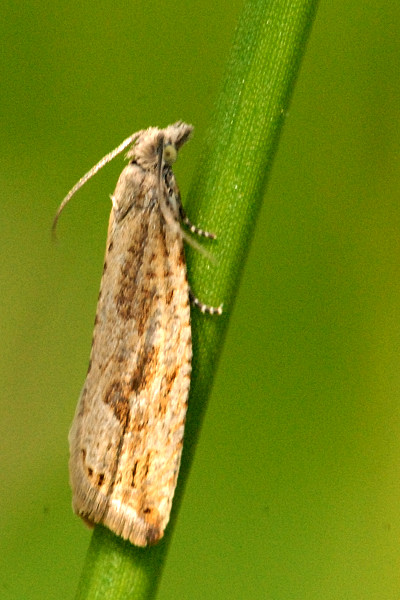 Bactra lancealana from Commanster, Belgian High Ardennes .